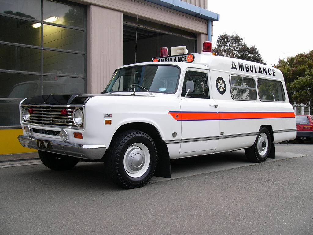 Ambulance based on a 1975 International Harvester 200 truck chassis, originally in service in Timaru, New Zealand. More photos at